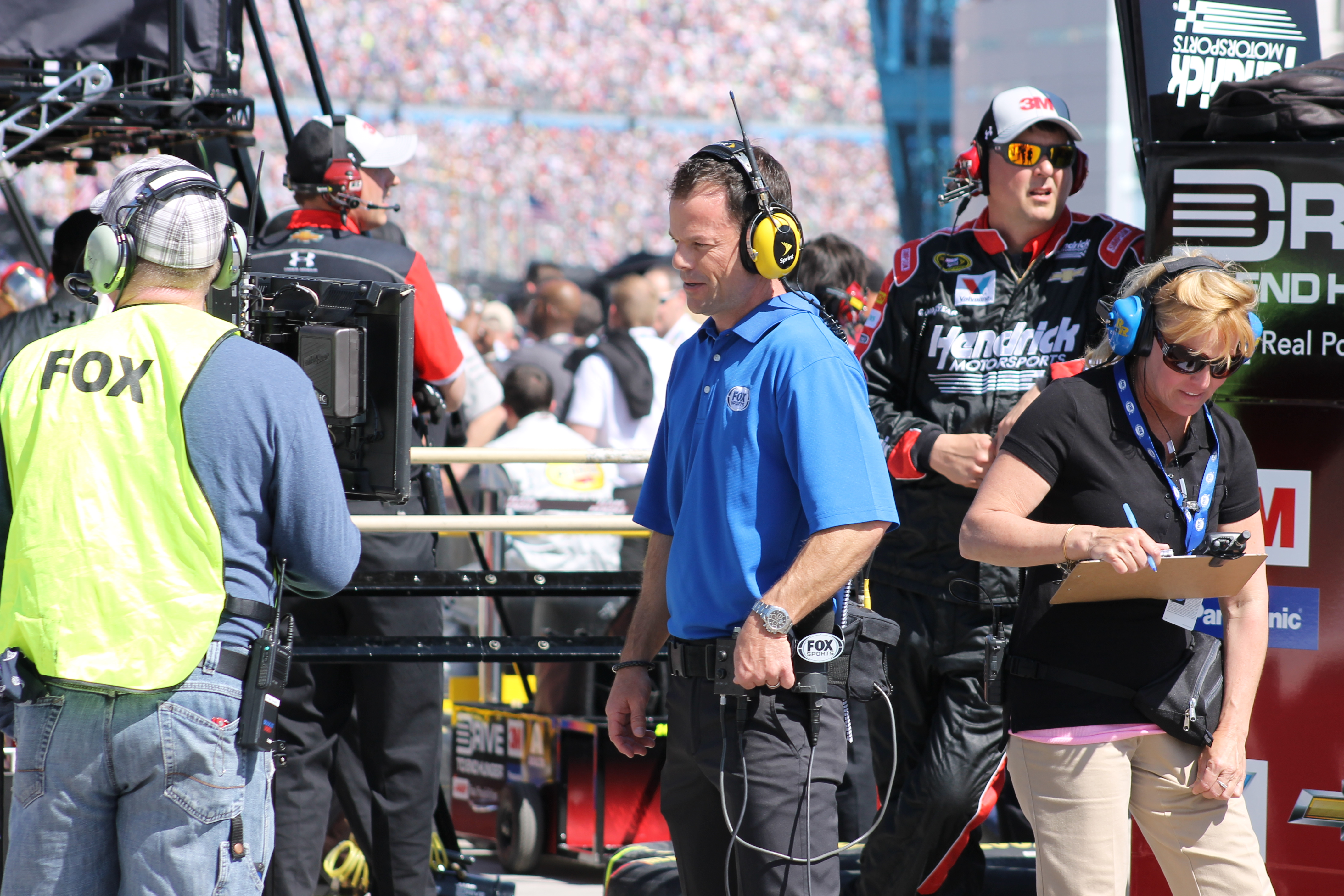 Chris Neville at Las Vegas Motor Speedway - March 2015